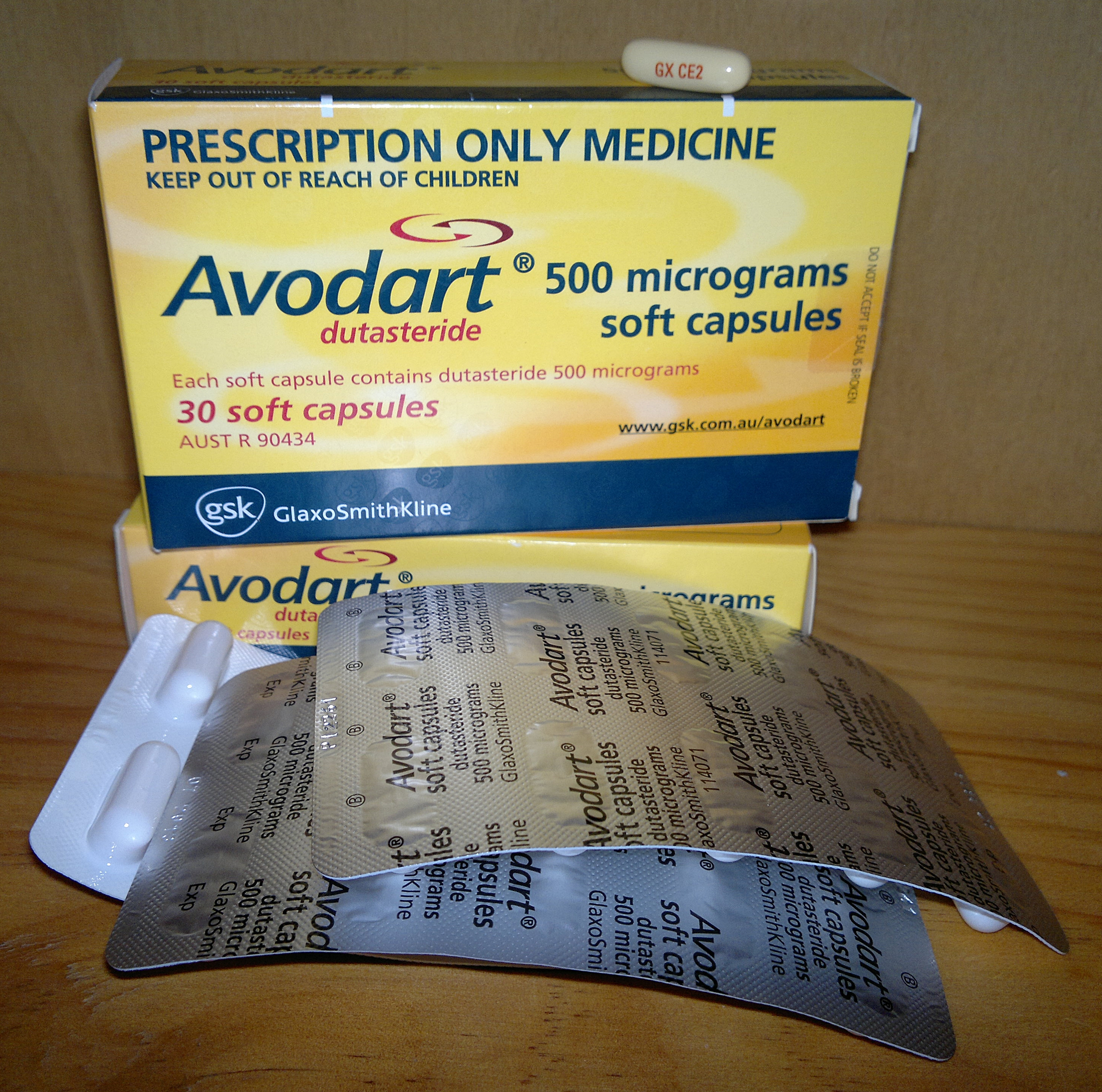 Avodart